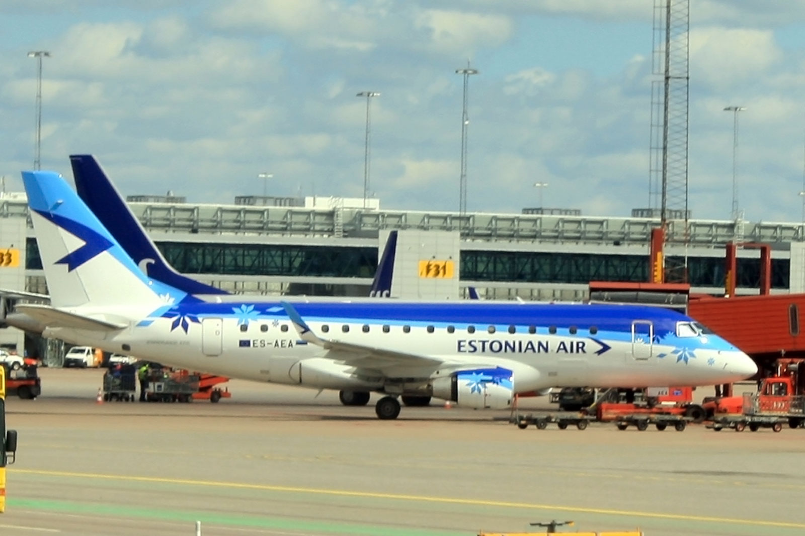 An Estonian Air Embraer 170 at Stockholm Arlanda Airport.